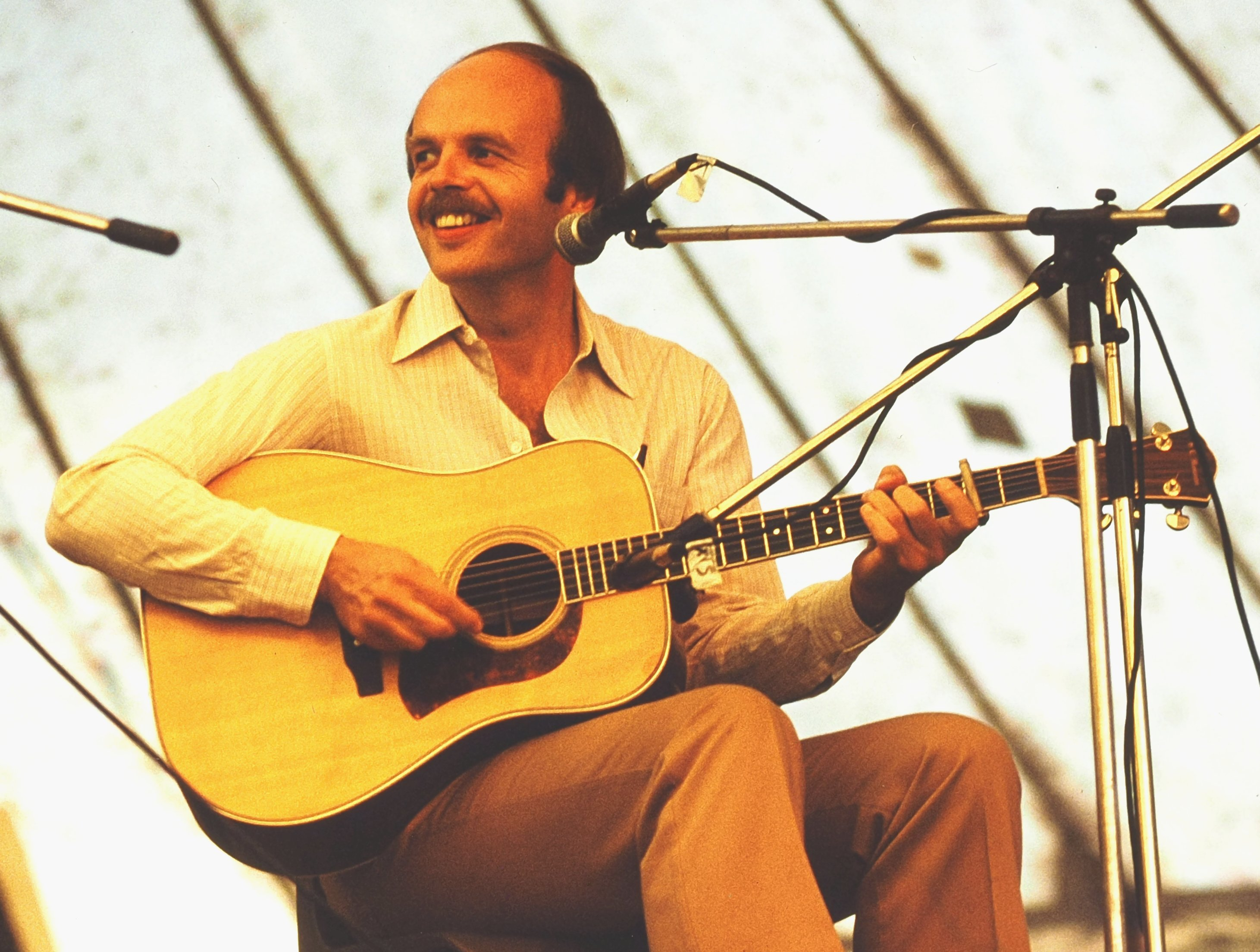 Dan Crary (bluegrass guitarist) performing at the 1981 Cambridge Folk Festival, UK (photograph by Tony Rees)